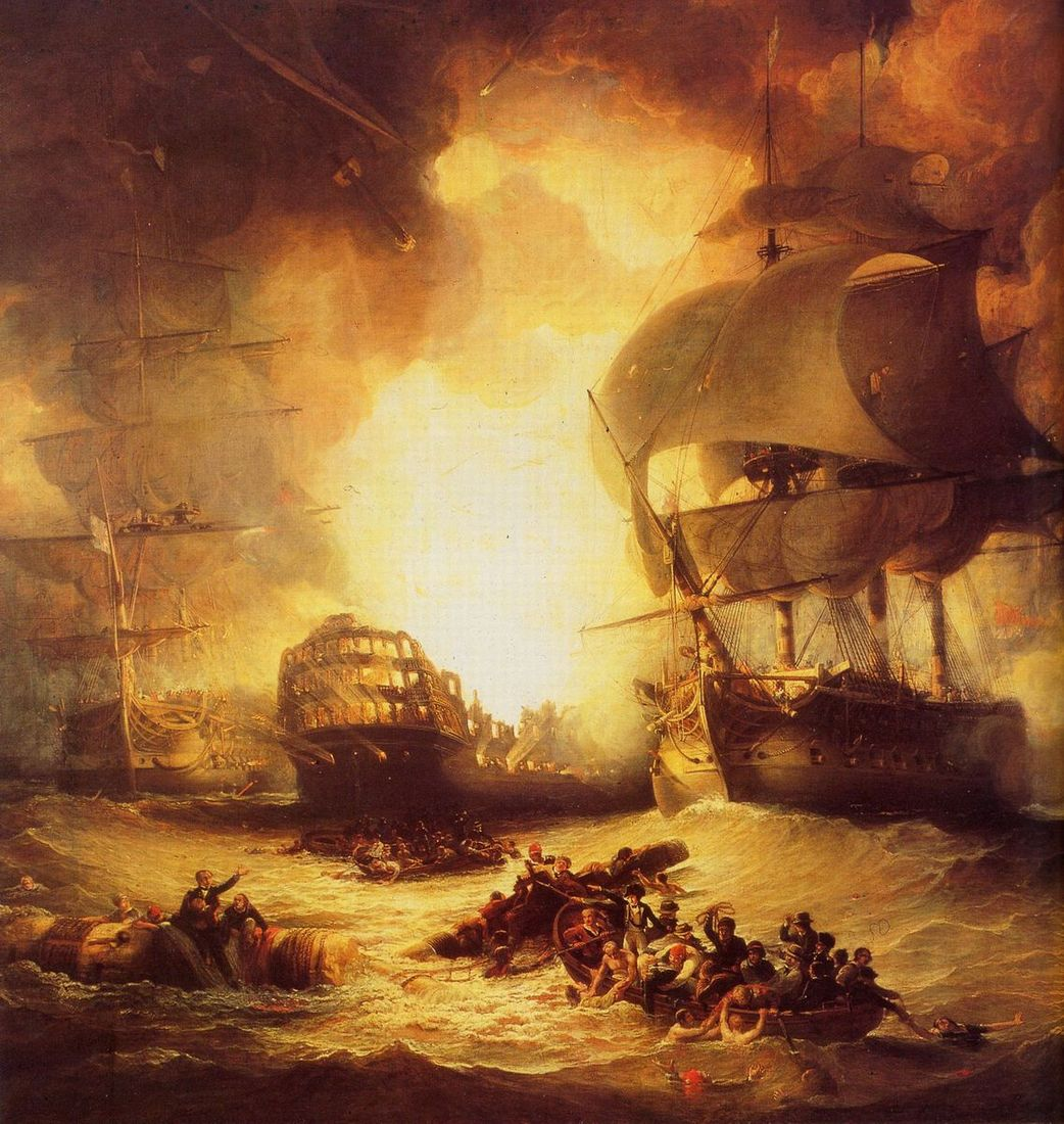 A cropped image, focusing on the French flagship, from The Destruction of 'L'Orient' at the Battle of the Nile, 1 August 1798